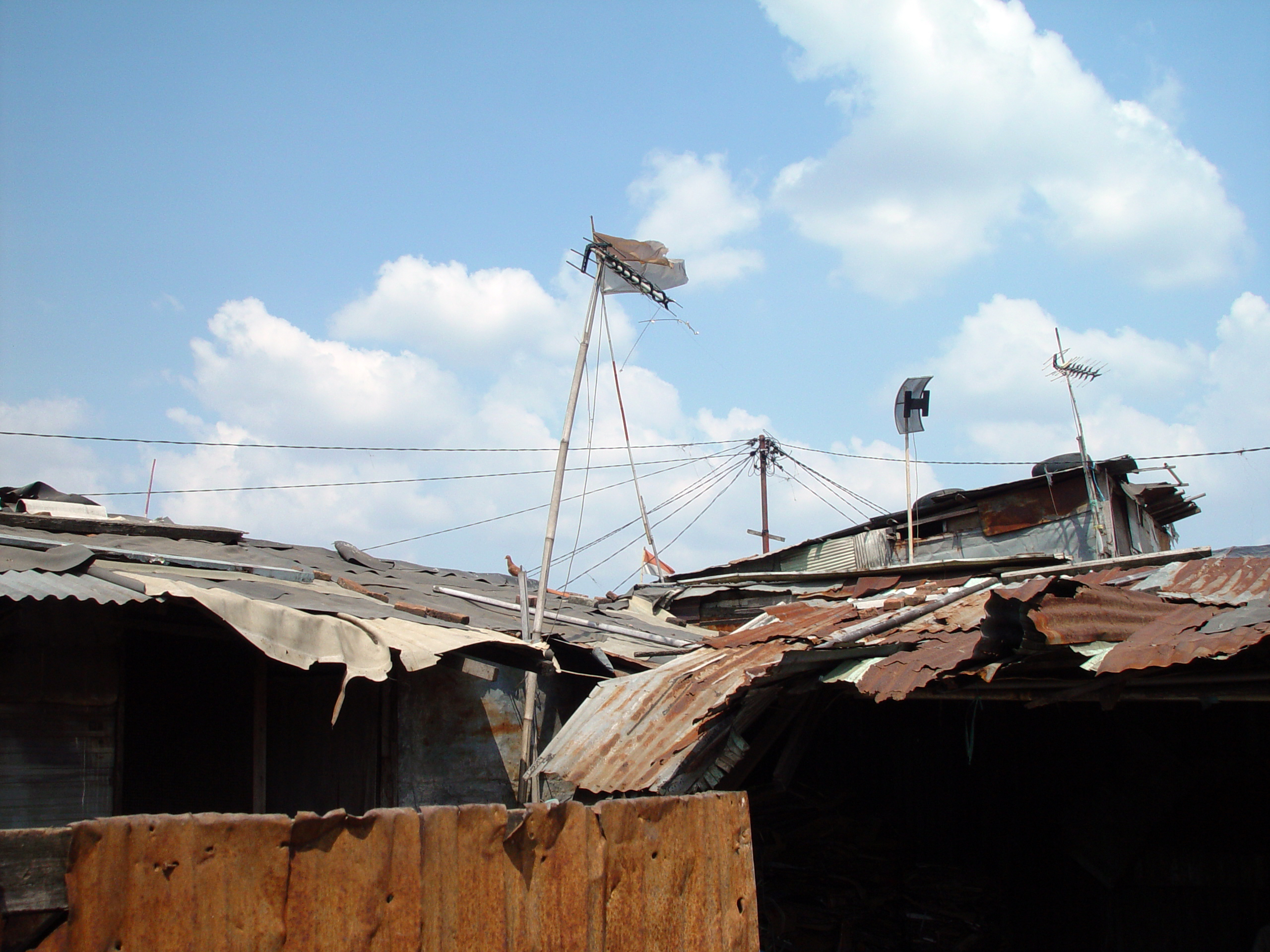 TV antennae extending from slum dwellings, Jakarta Indonesia.